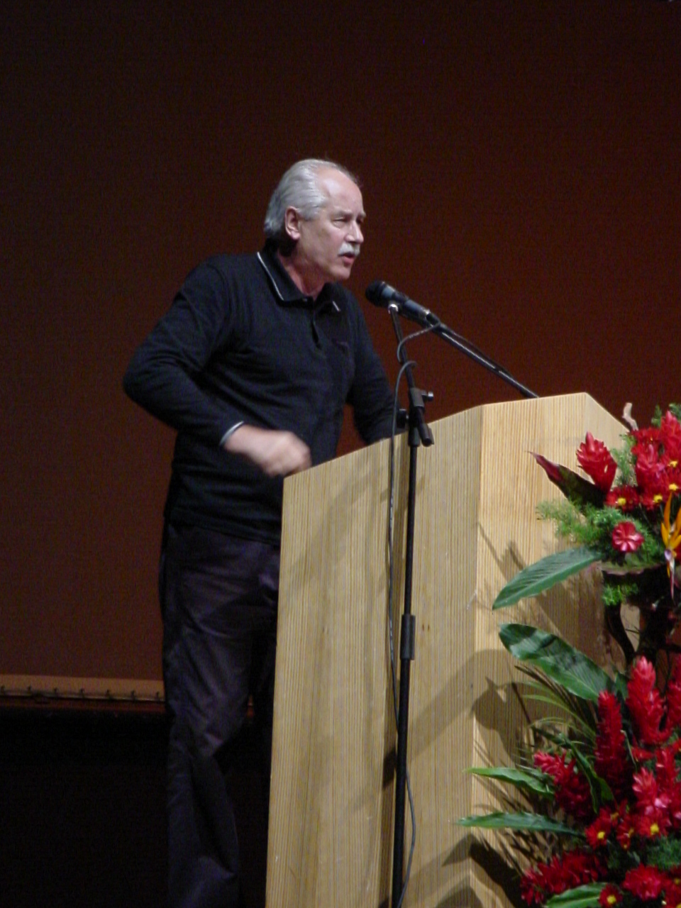 Heinz Dieterich